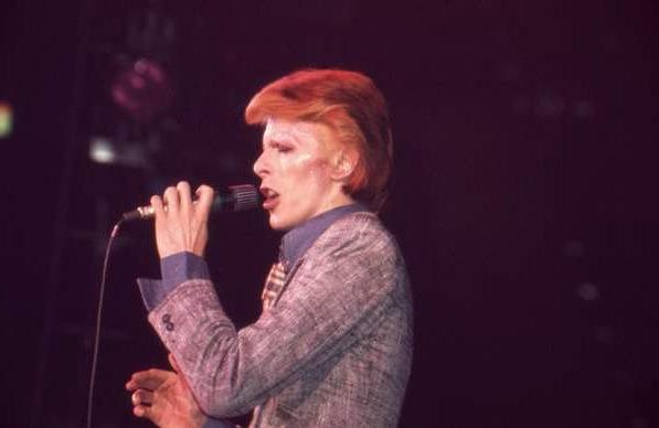 The Young Americans tour at the Washington DC Capital Centre on 11 November 1974.